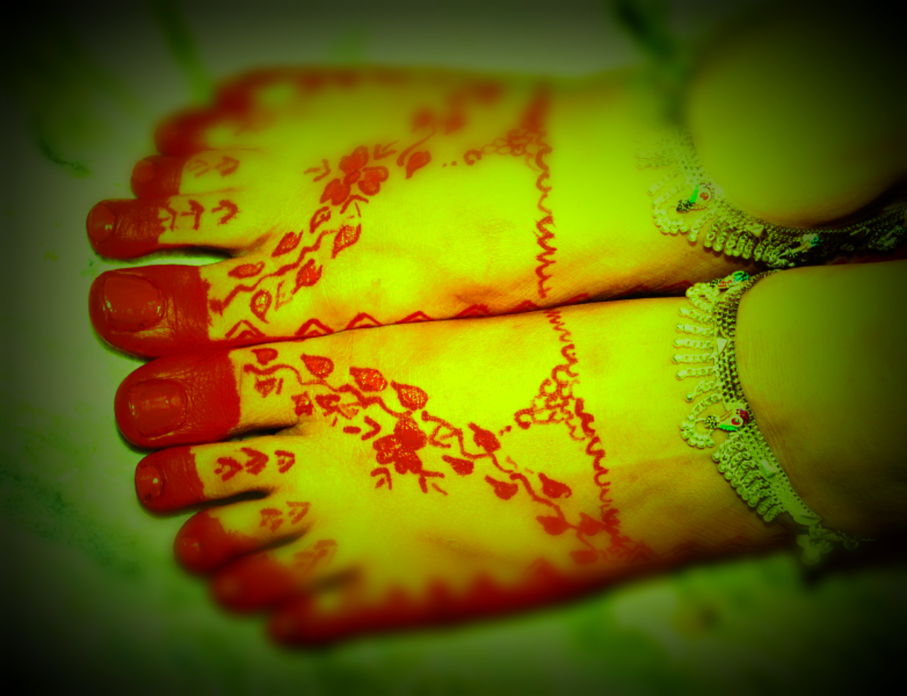 Alata